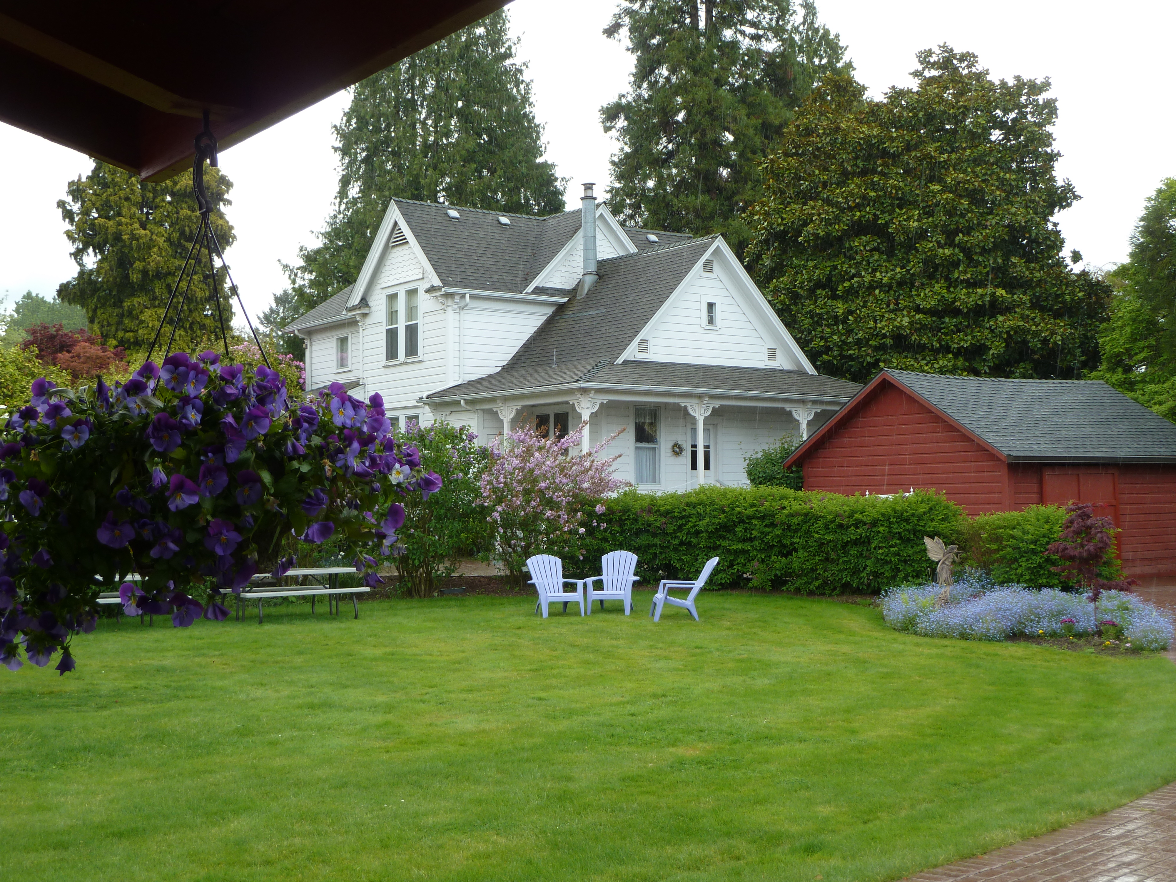 Hulda Klager's house and lawn, HKLG, Woodland, WA.